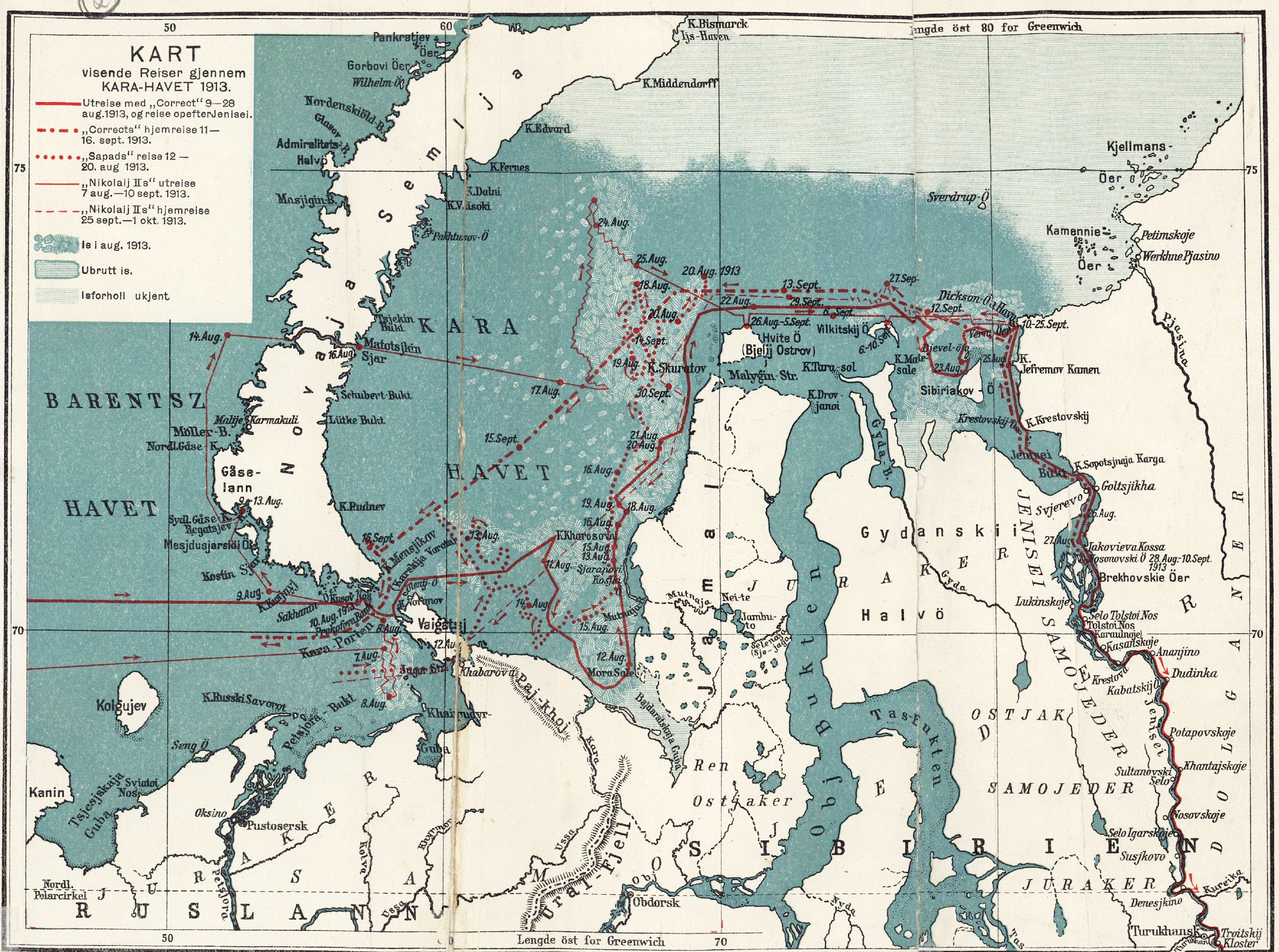 Map of the Kara Sea and adjoining territories, showing the track of The Correct and the ice conditions